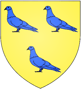 Coat of arms, family Weapons: Apolinaire Bitsch Provost Burnhaupt and first mayor of Burnhaupt-le-Haut